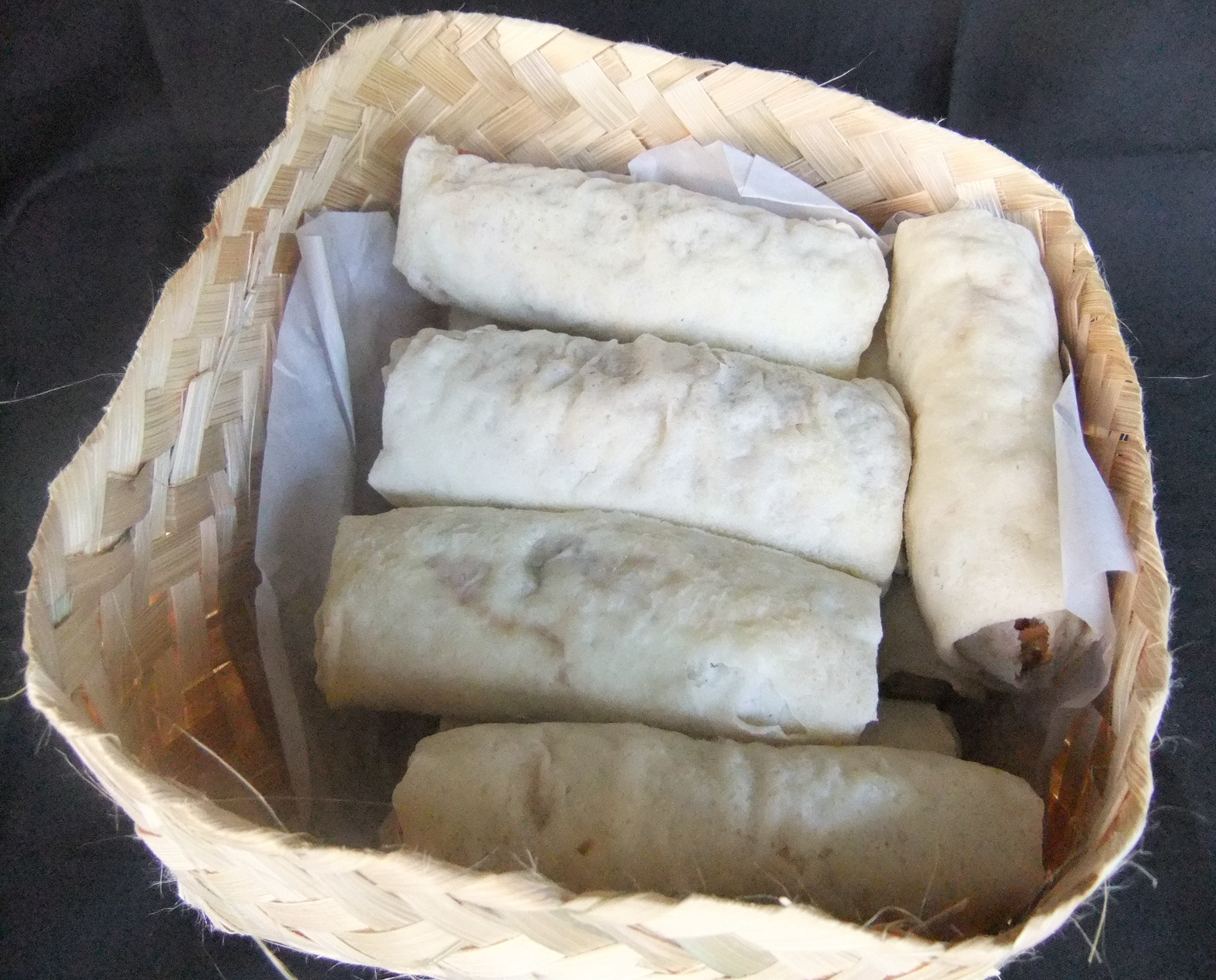 Springrolls of Semarang